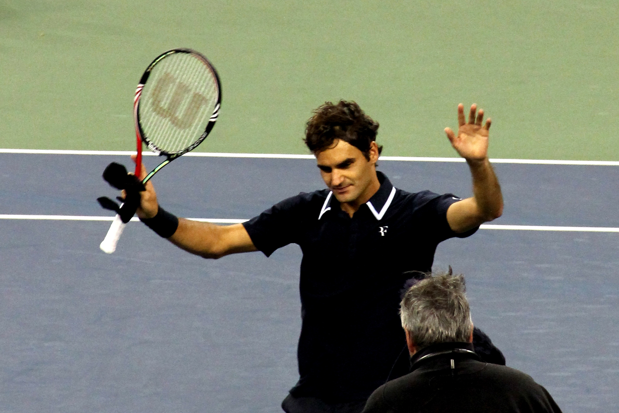 Roger Federer on Wednesday night at the US Open where he won against Robin Soderling. The Cosmopolitan is in New York for the 2010 US Open, inviting attendees and guests to experience signature views from our Overlook and in our custom designed suite with prime-stadium seating. For more information on The Cosmopolitan visit